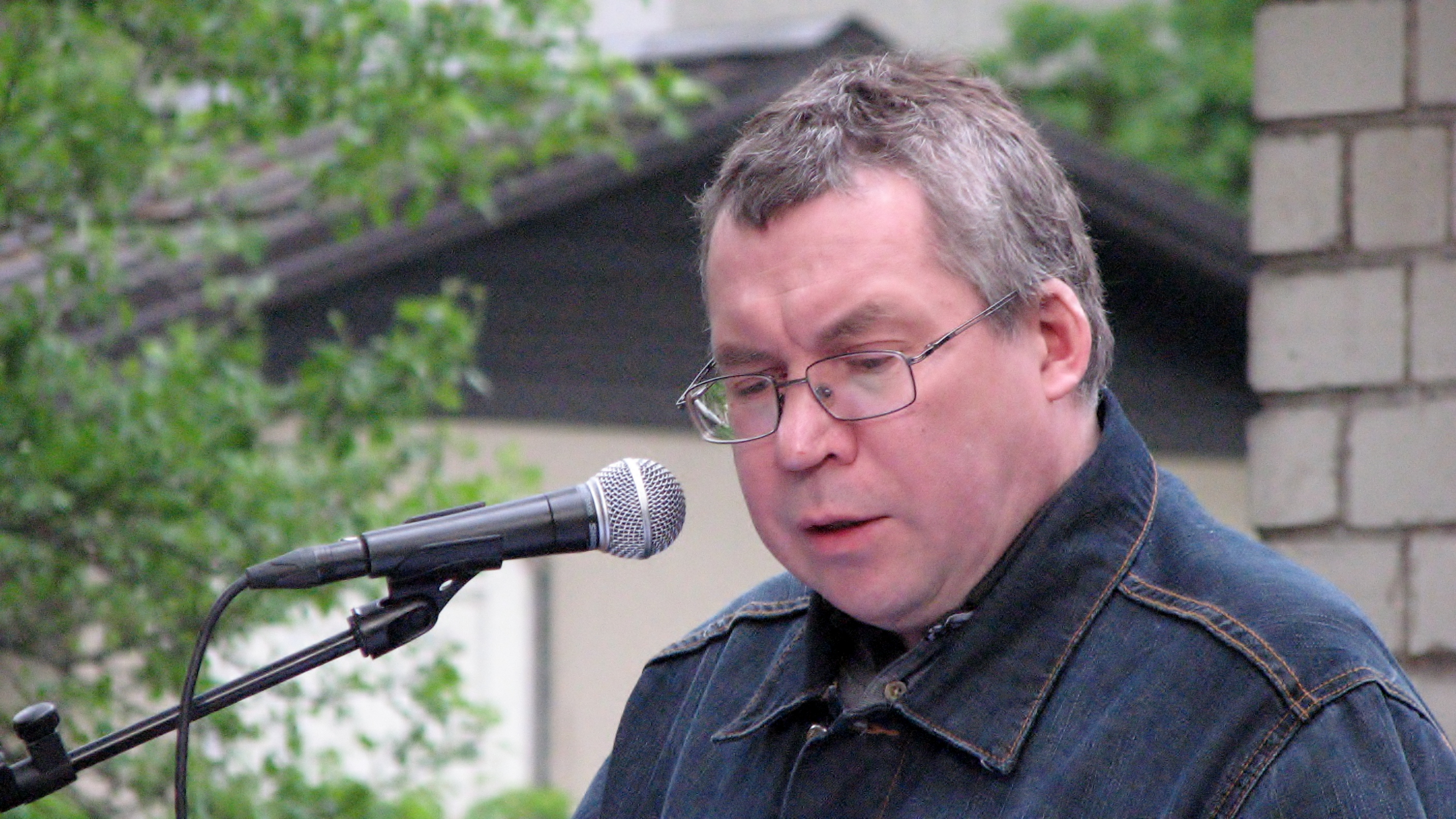 Peeter Sauter performing in HeadRead festival